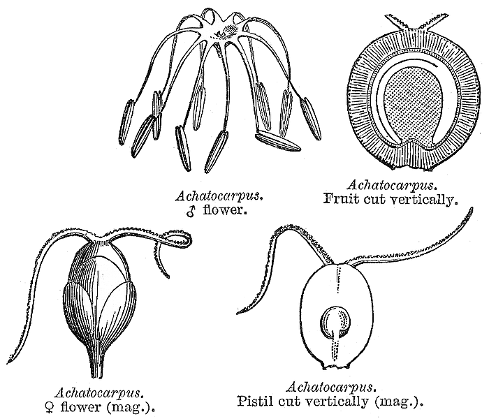 Achatocarpus